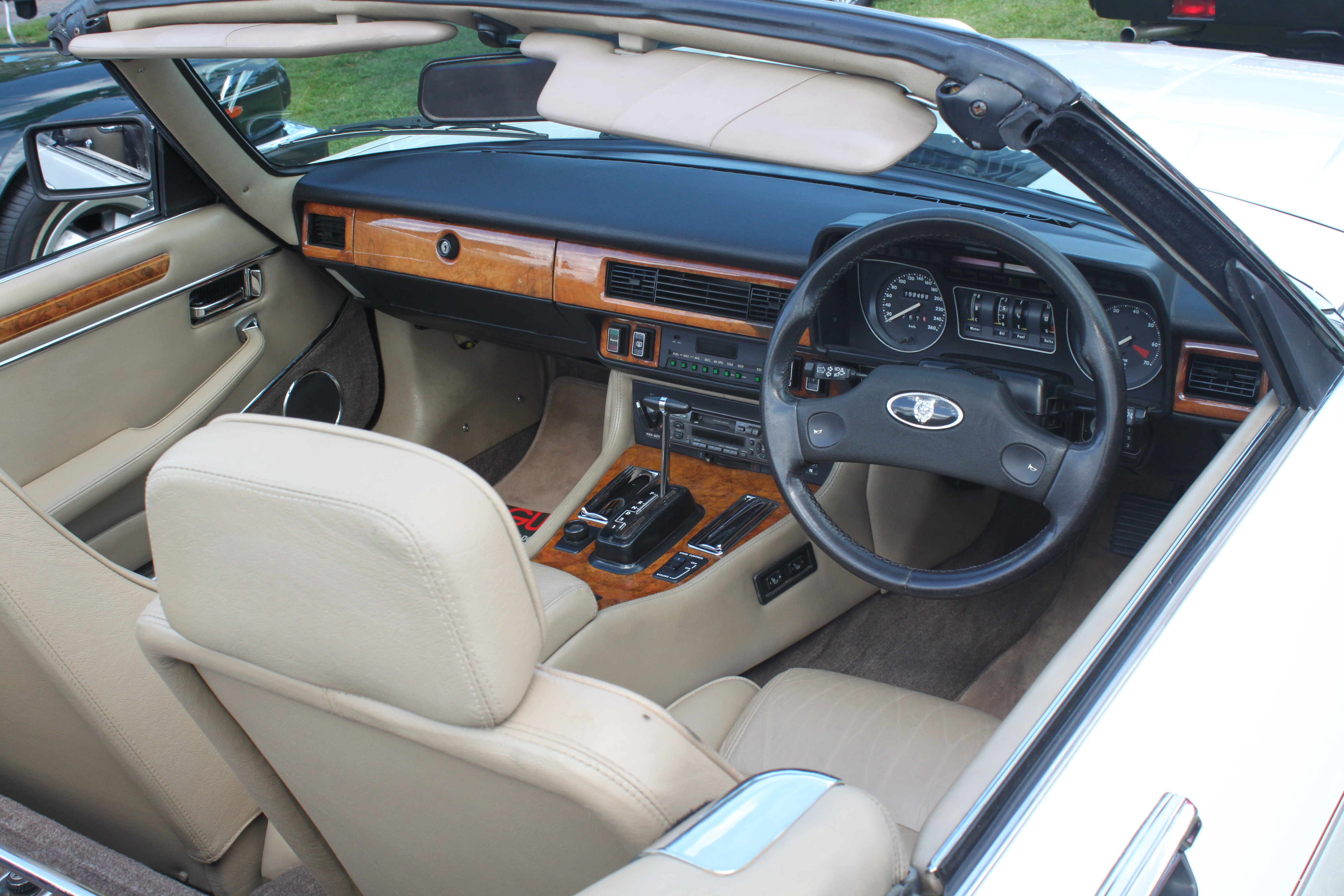 All British Day, Kings School, North Parramatta, NSW August 2015